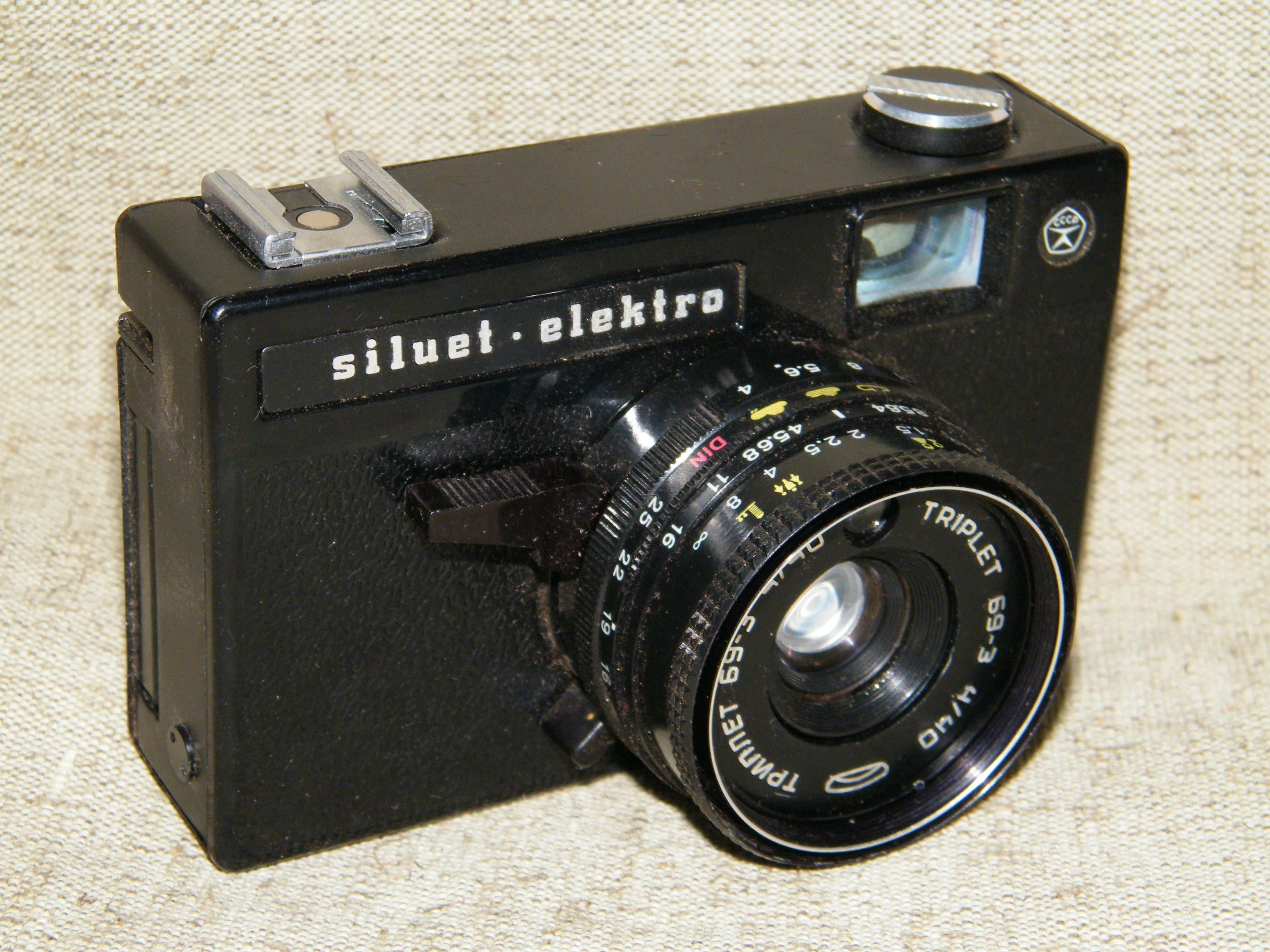 Фотоаппарат Силуэт-электро, БелОМО